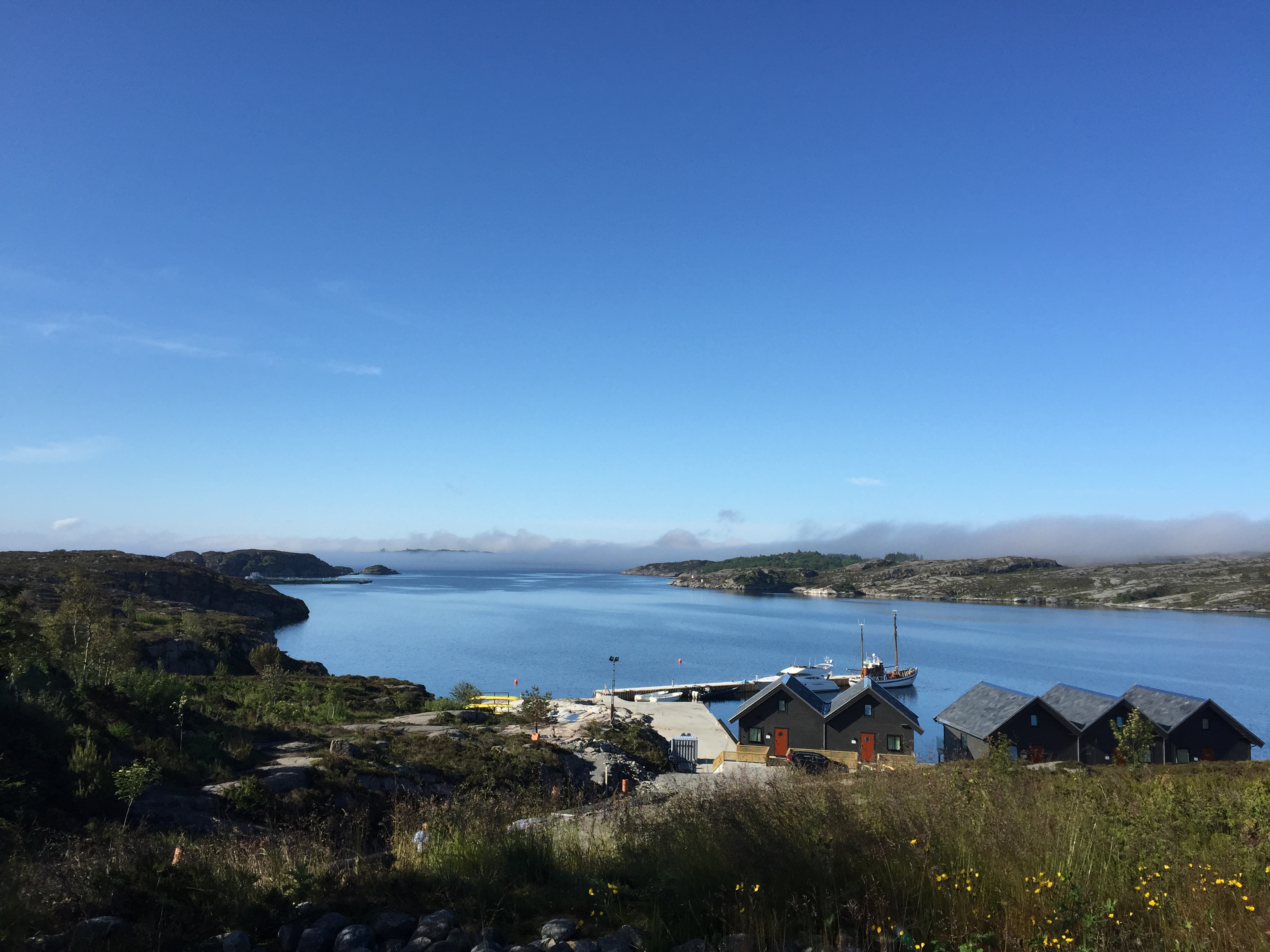 Advection fog in Korsfjorden, Hordaland.